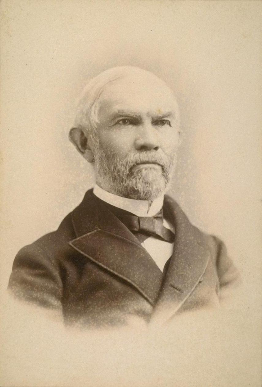 Josiah Belden (1815-1892), first mayor of the incorporated city of San Jose, California.